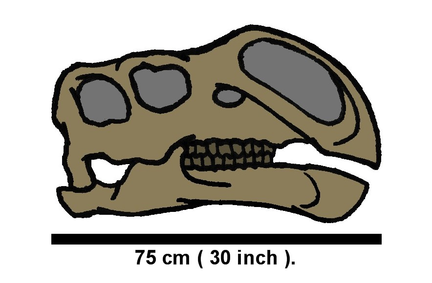 Simple illustration of the skull from the ornithopodan dinosaur Altirhinus, here with yardstick.